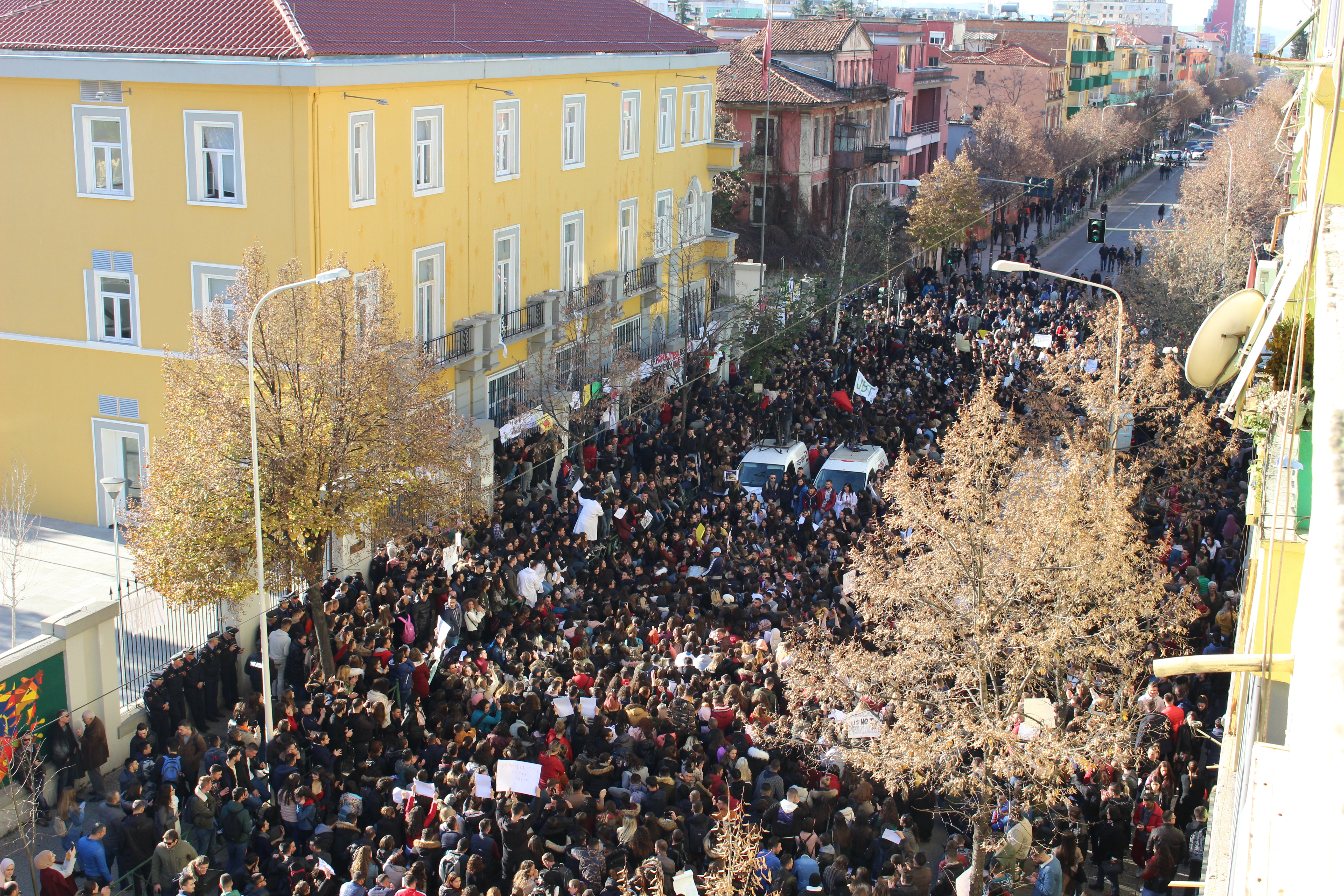 This photo was taken during the student's protest in Albania, which took place in December 7th, 2018.